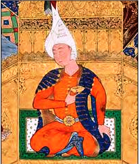 Painting of Ardashir in The Shahnama of Shah Tahmasp